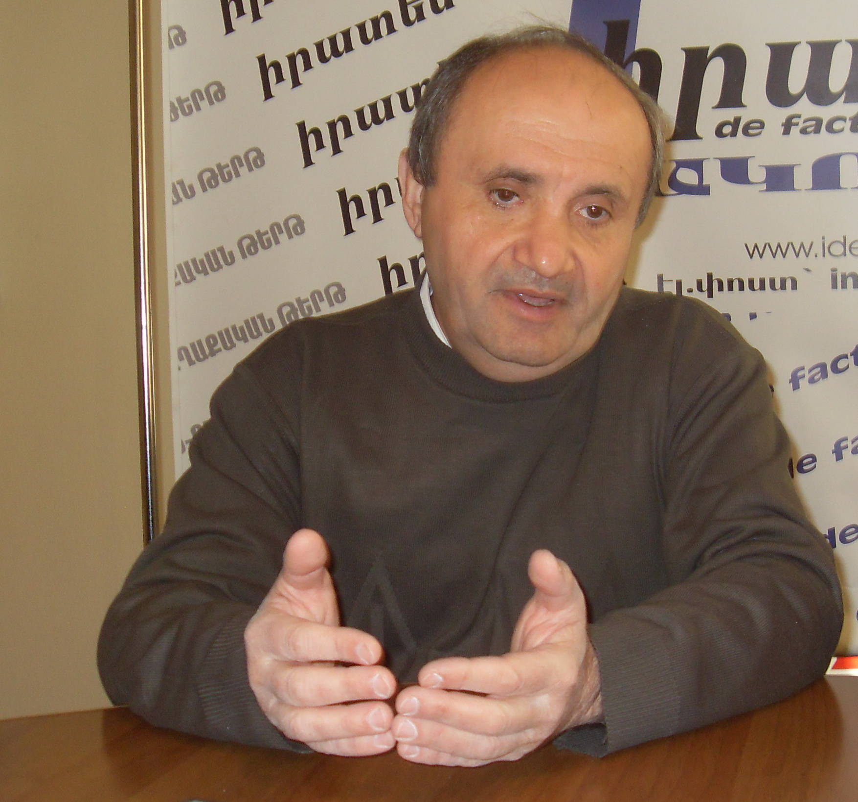 Ashot Manucharyan is an Armenian teacher and one of the founding members of the Karabakh Committee, was the Minister of Internal Affairs from 1991 to 1992.